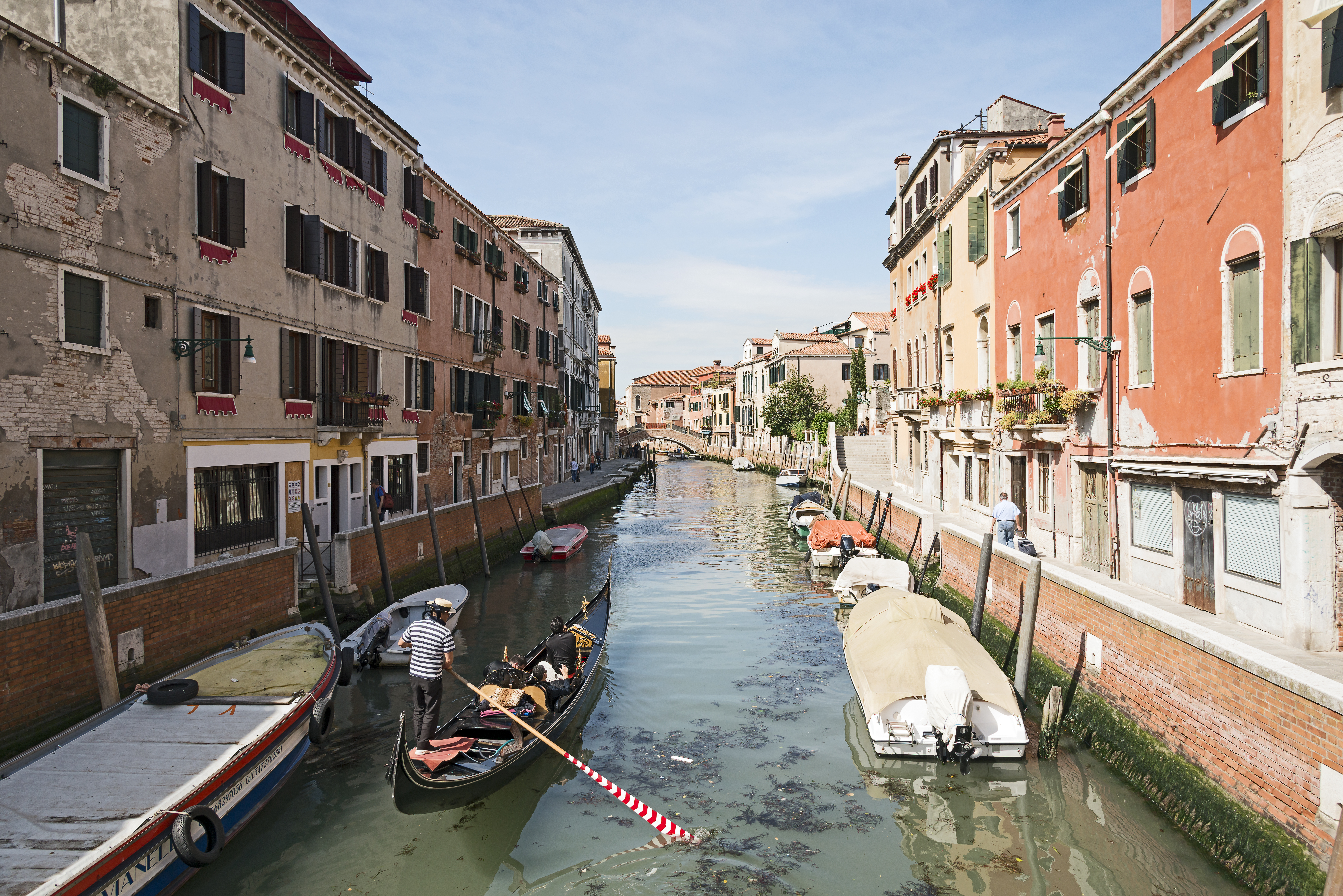 Rio dei Carmini to Venice. Estern limit of the Rio.